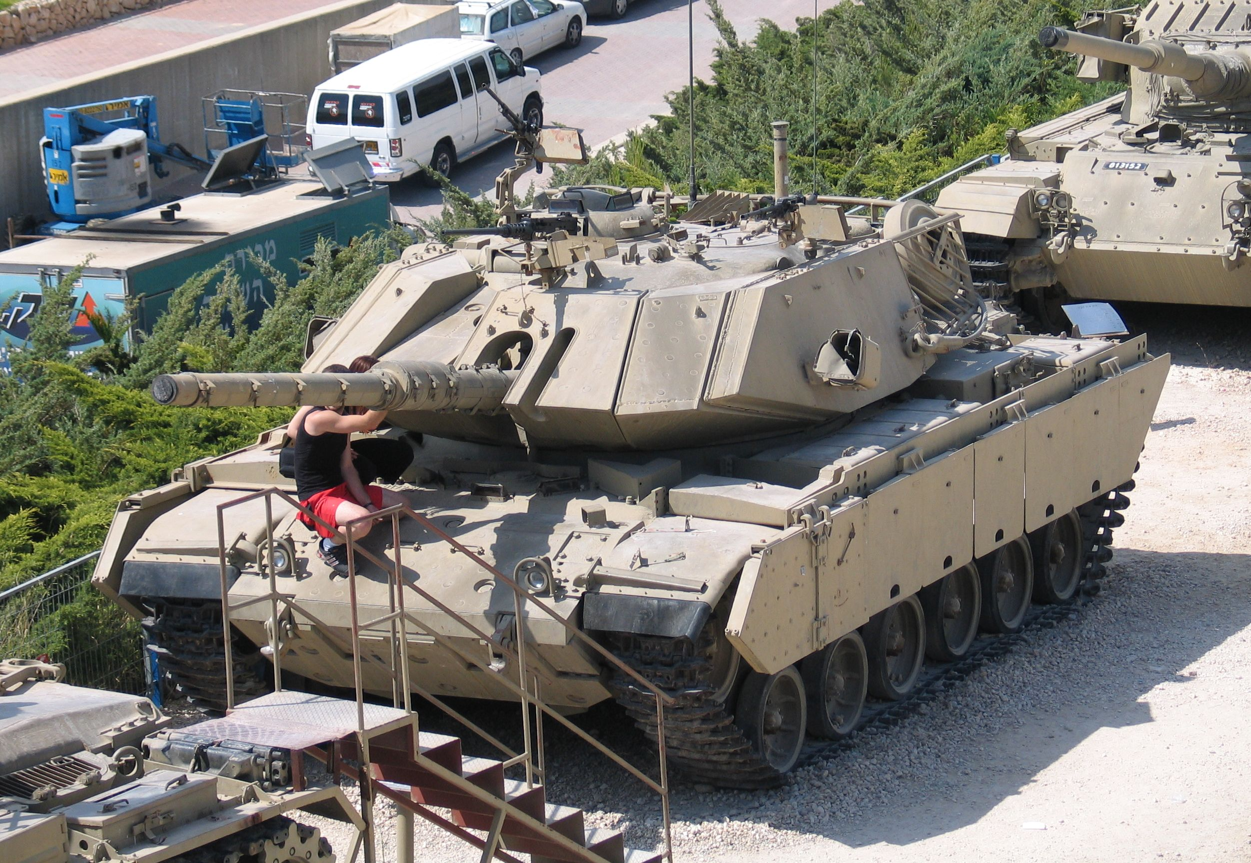 M60 Patton with M9 dozer blade in Yad la-Shiryon Museum, Israel.